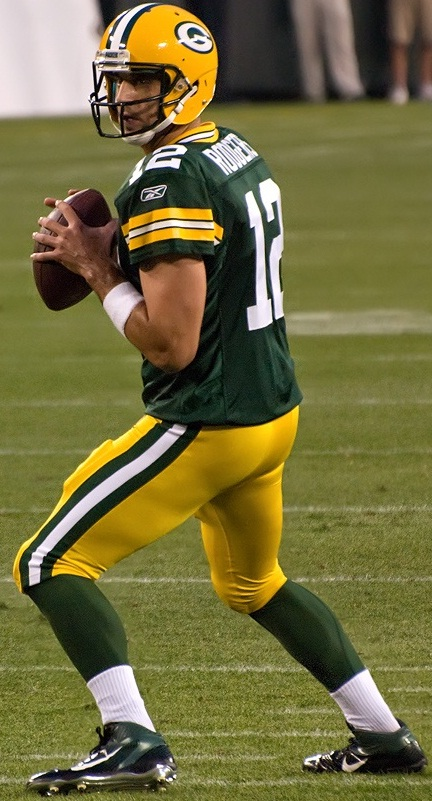 Aaron Rodgers drops back for a pass on September 1, 2011 in Green Bay, Wisconsin.